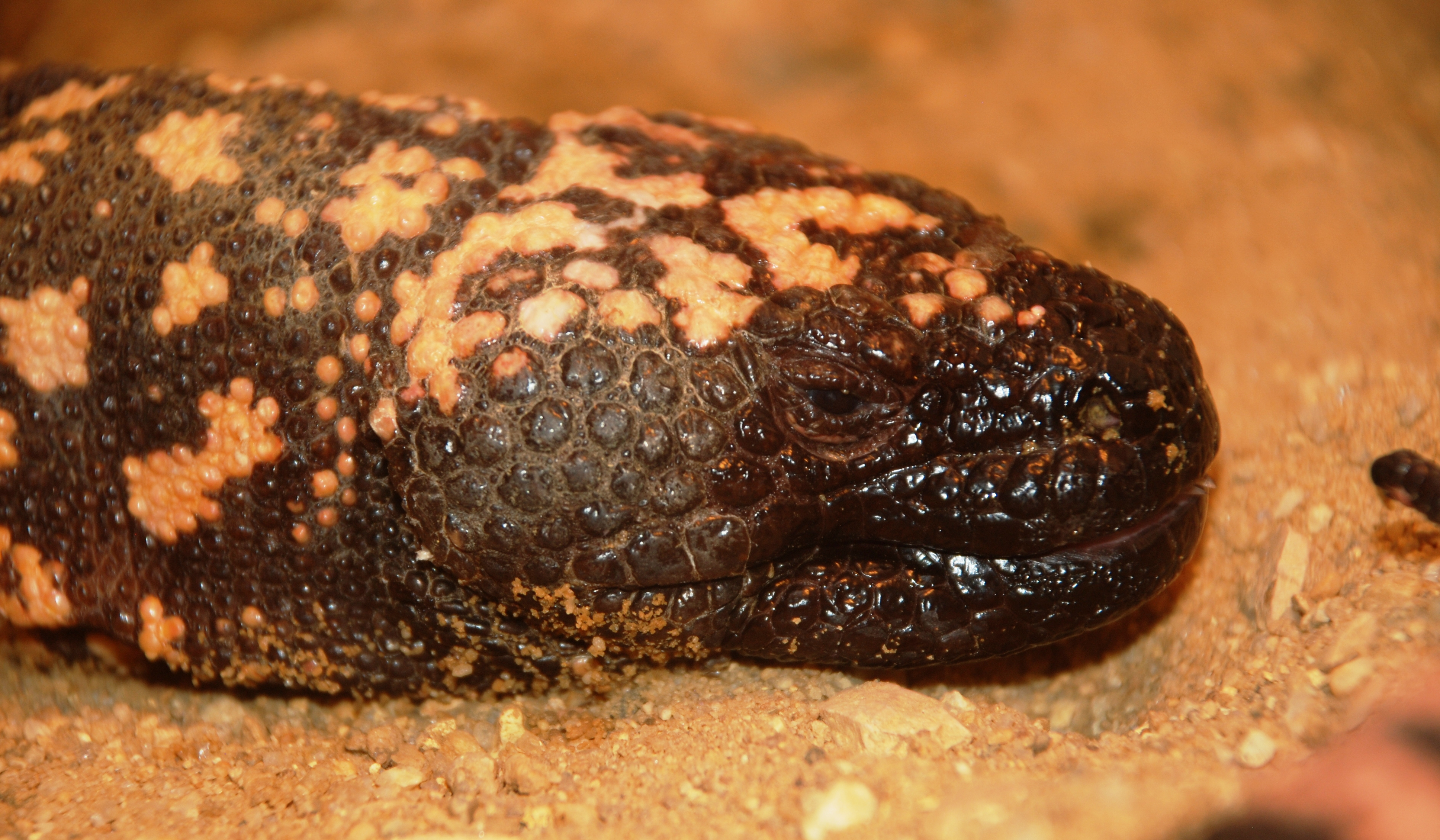 Reptiles in Smithsonian National Zoological Park: Heloderma suspectum Gila monster